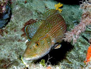 Picture of Labrus viridis